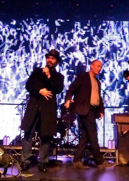 Manny Pacquiao and David Batstone of Not For Sale